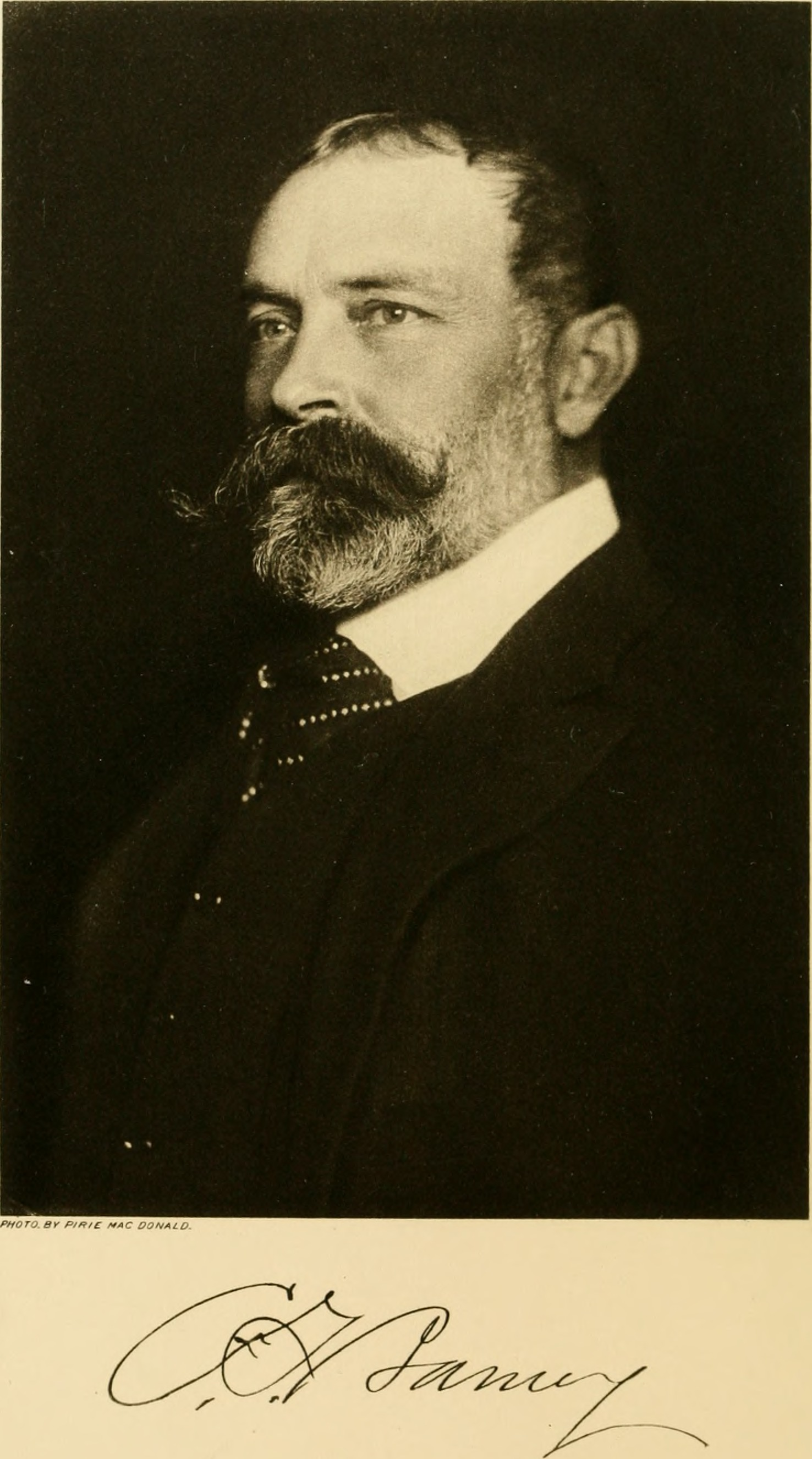 Title: Annual report - New York Zoological Society Year: 1907 (1900s) Authors: New York Zoological Society Subjects: Zoology Publisher: New York, The Society Text Appearing Before Image: ' Text Appearing After Image: '